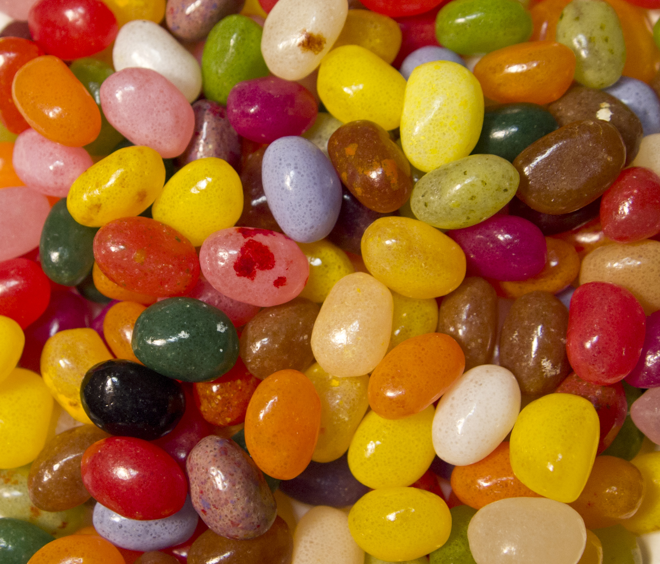 Gourmet Jelly Beans by The Jelly Bean Factory. This photograph was taken with a Olympus E-PL1.